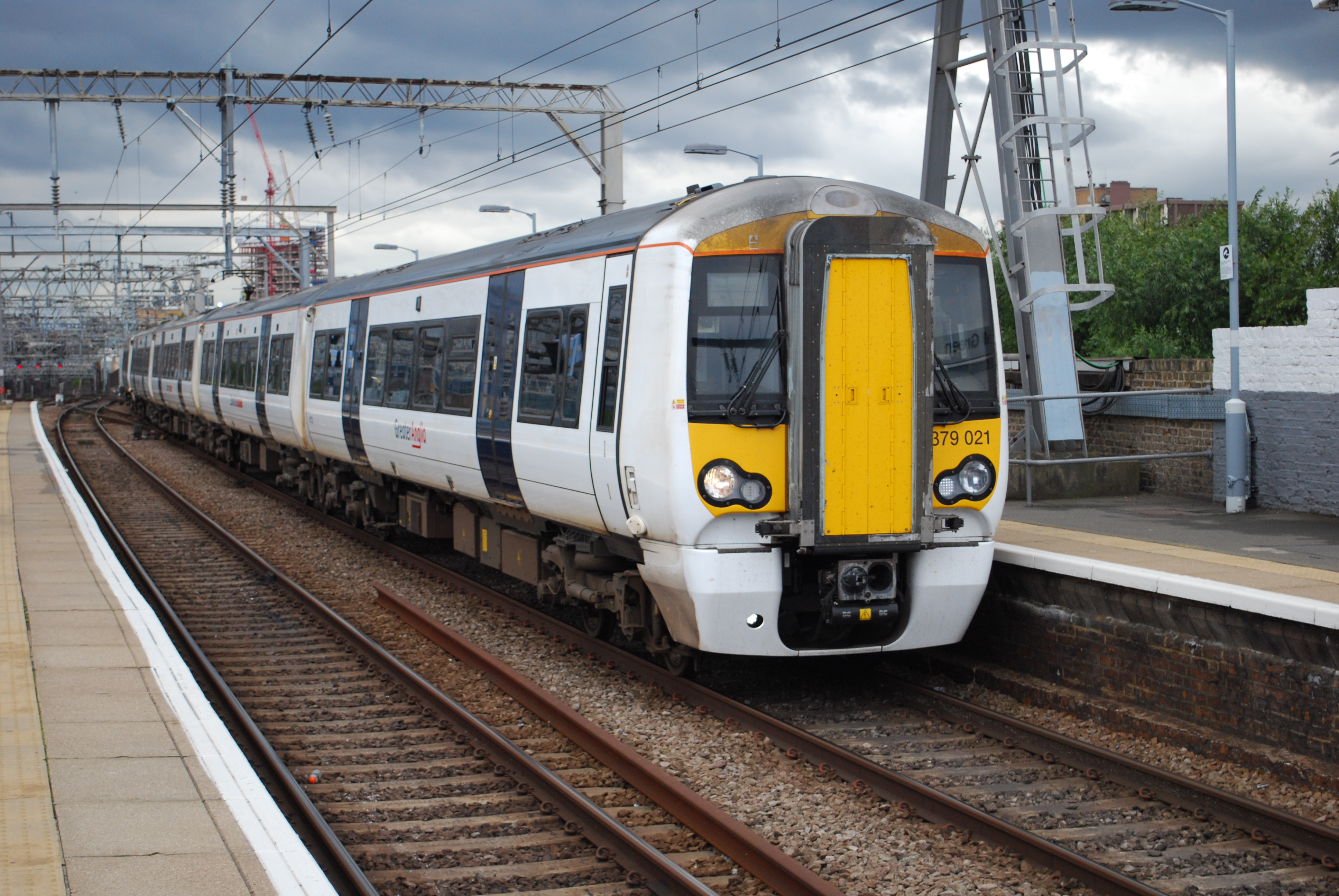 Bombardier (Derby) Class 379 "Electrostar" 25k V ac overhead 4-car emu No.379 011 of Greater East Anglia sweeps through Bethnal Green under a threatening sky on a Liverpool St - Cambridge service, 08/11.